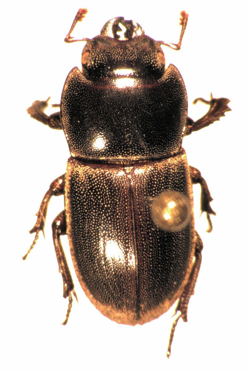 adult female Paralissotes mangonuiensis